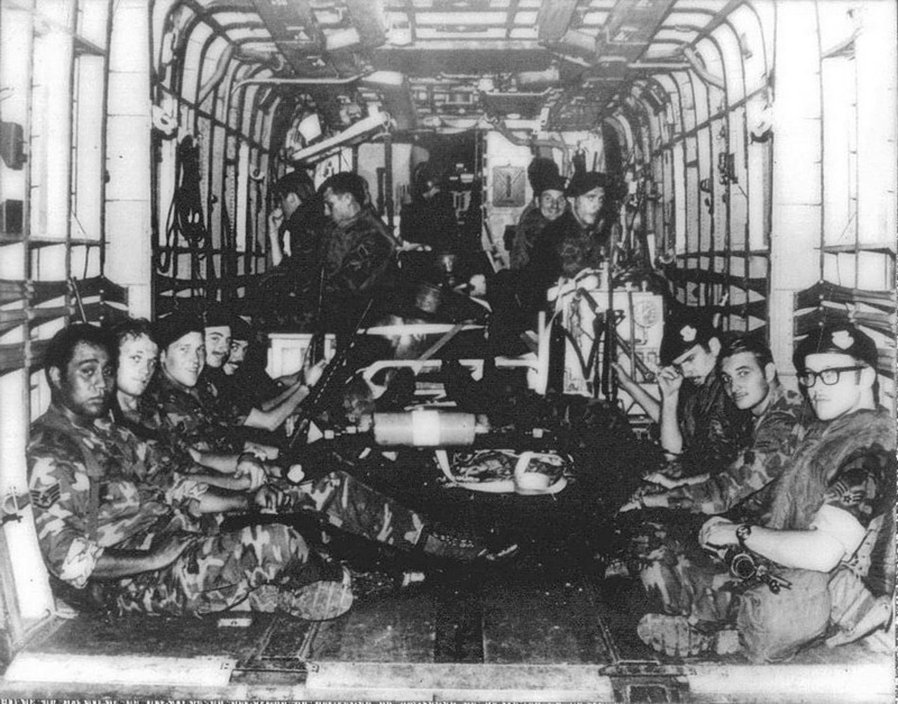 U.S. Air Force security policemen assigned to the 56th Special Operations Wing, Nakhon Phanom Royal Thai Air Force Base, Thailand, aboard a Sikorsky CH-53C Super Jolly Green Giant (s/n 68-10933, callsign "Knife 13") of the 21st Special Operations Squadron. The crew of five and the 18 passengers airmen died when the helicopter crashed 64 km west of the airfield on 14 May 1975 due to a mechanical malfunction, abouth one hour after this photo was taken. A main rotor blade separated from head in flight.